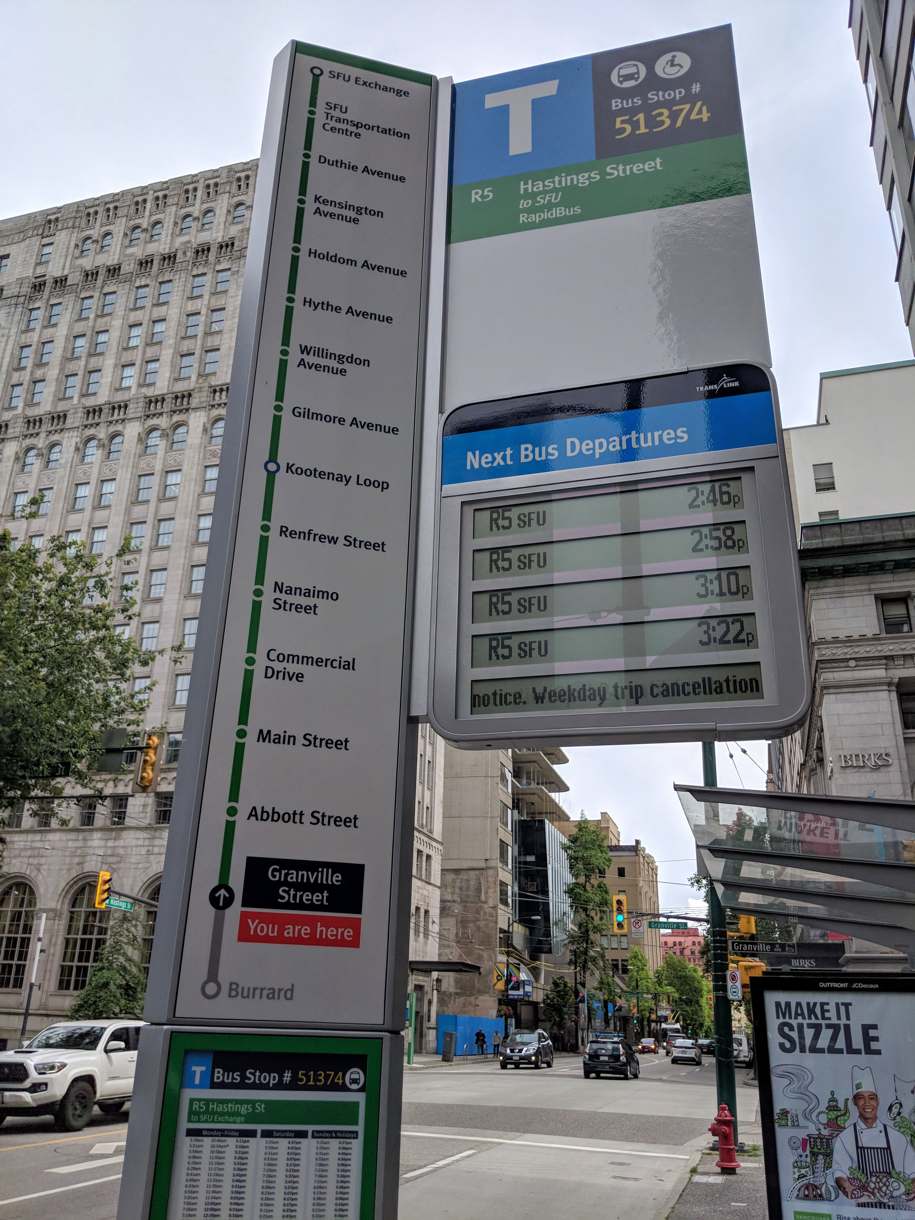 Real-time arrival information displayed near Waterfront station. Photo taken in June 2020.